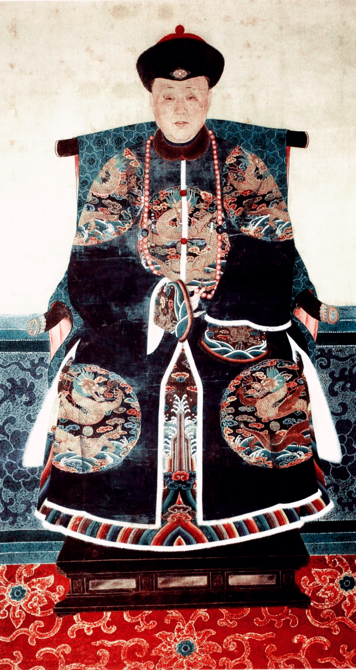 Princess He Xiao Ku Lun, daughter of Qianlong Emperor